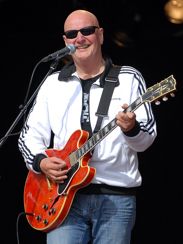 Frode Alnæs at the StatoilHydro free concert in Stavanger 2008.